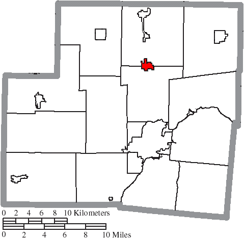 Map of the municipal and township boundaries of Shelby County, Ohio, United States, as of the 2000 census, with the location of the village of Anna highlighted. Township borders are shown only in unincorporated areas in order to differentiate incorporated and unincorporated areas more clearly.